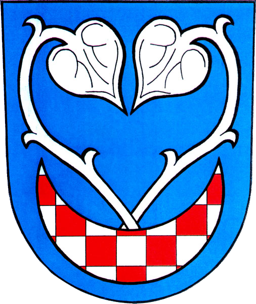 Coat of arms of market-town Litultovice in Moravian-Silesian Region, Czech Republic. Česky: Znak Litultovic, městyse v Moravskoslezském kraji. (Blason: V modrém štítě dvě stříbrná lekna vyrůstající ze stoupajícího stříbrno-červeně šachovaného půlměsíce.)